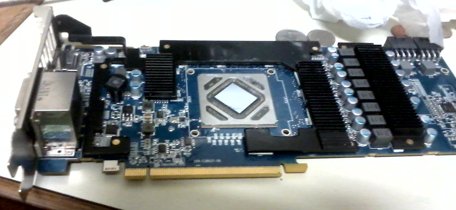 a Radeon 7970 Graphics card with main cooler removed